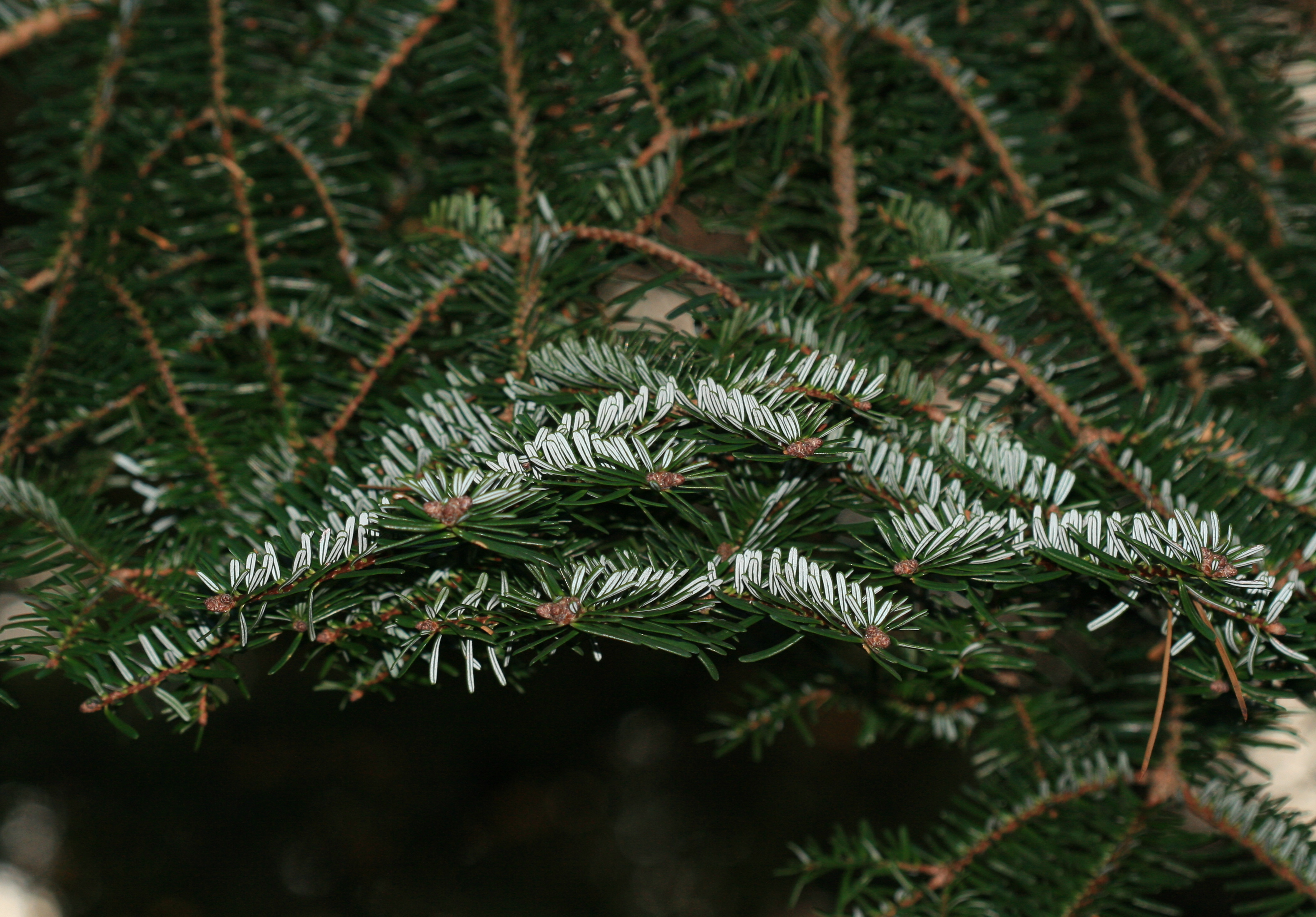 Royal Botanic Gardens Edinburgh, Scotland Ref: .uk/bgbase/livcol/bgbaselivcol.php?cfg=bgba...